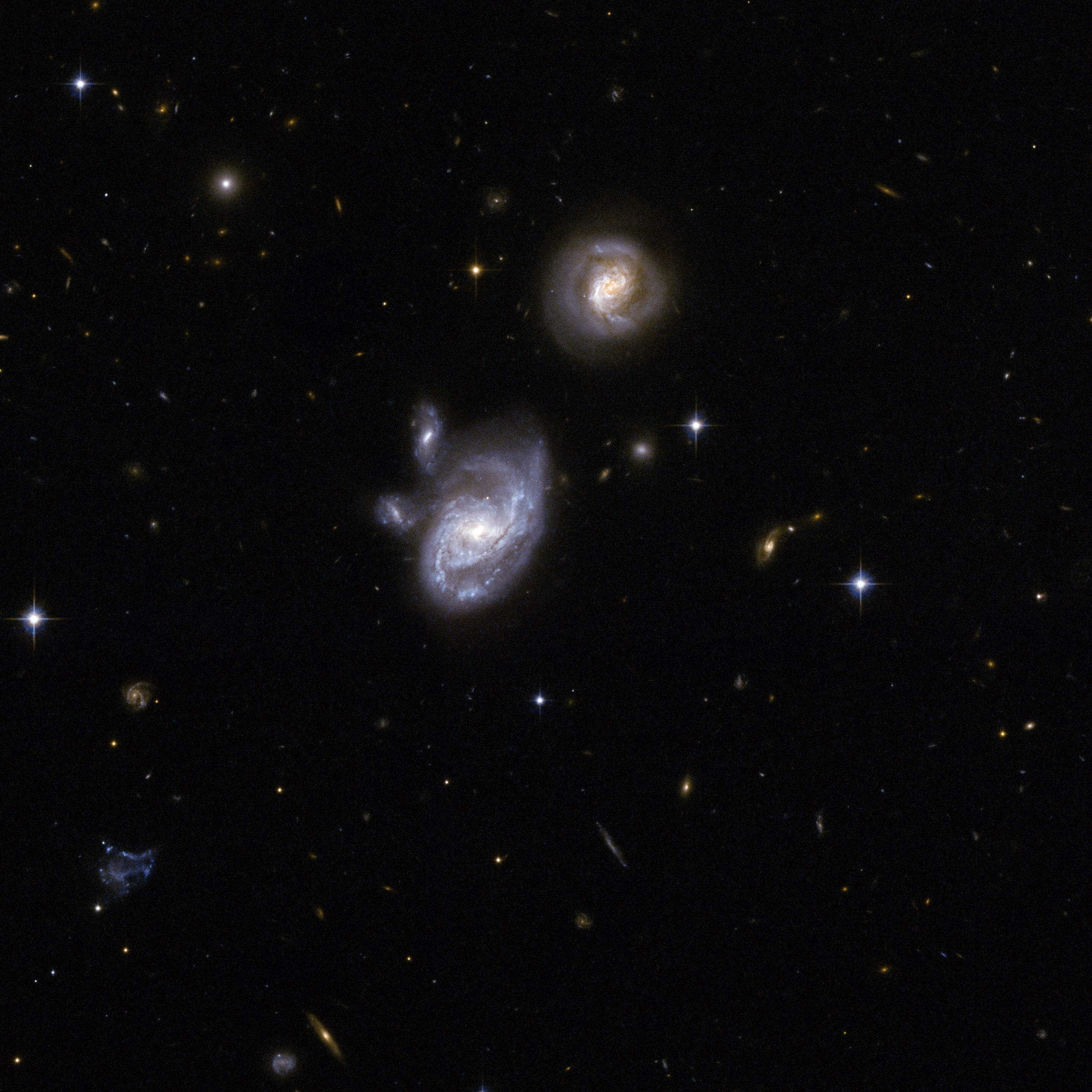 2MASX J09133888-1019196 comprises two interacting galaxies that are both disturbed by gravitational interaction. The wide separation of the pair - approximately 130,000 light-years - suggests that the galaxies are just beginning to merge. Together the two galaxies form an ultra-luminous infrared system, which is unusual for the early stages of an interaction. One possible explanation is that the one or both of the components have already experienced a merger or interaction. Giant black holes lurk at the cores of both galaxies, which are found in the constellation of Hydra, the Sea Serpent, about 700 million light-years away from Earth. This image is part of a large collection of 59 images of merging galaxies taken by the Hubble Space Telescope and released on the occasion of its 18th anniversary on 24th April 2008. About the objectObject name2MASX J09133888-1019196, IRAS F09111-1007Object descriptionInteracting GalaxiesPosition (J2000)09 13 39.00 +10 19 20.3ConstellationHydraDistance700 million light-years (200 million parsecs)About the dataData descriptionThe Hubble image was created using HST data from proposal 10592: A. Evans (University of Virginia, Charlottesville/NRAO/Stony Brook University)InstrumentACS/WFCExposure date(s)October 31, 2001Exposure time33 minutesFiltersF435W (B) and F814W (I)